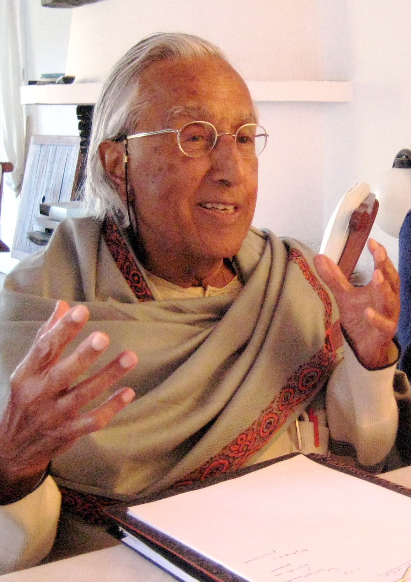 Raimon Panikkar in 2007 - Milarupa, Calitjas - Roses - Girona, Spain.